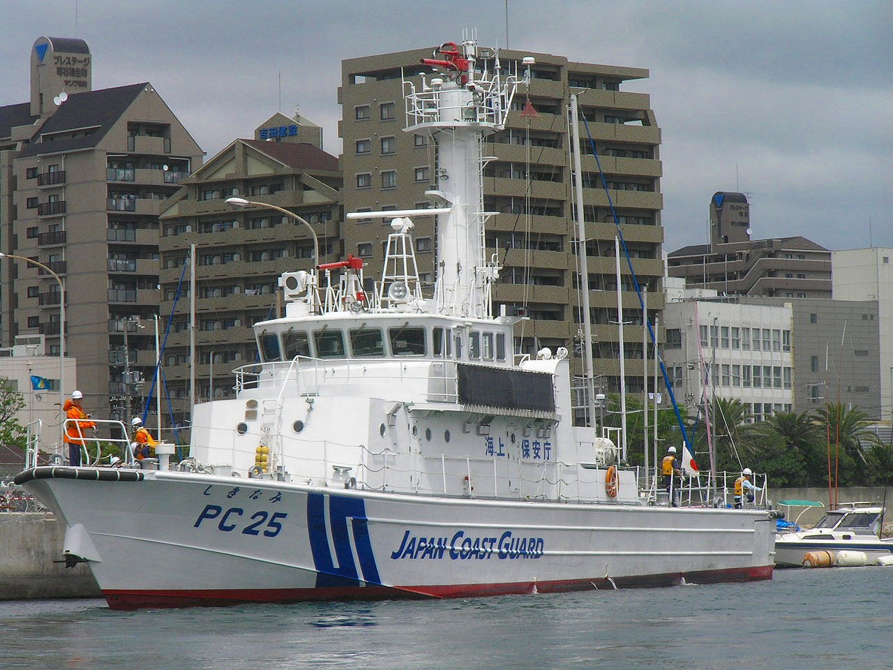 Japanese Coast Guard vessel in Akashi port.